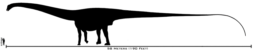 Size comparison between the biggest diplodocid Maraapunisaurus fragillimus and a human